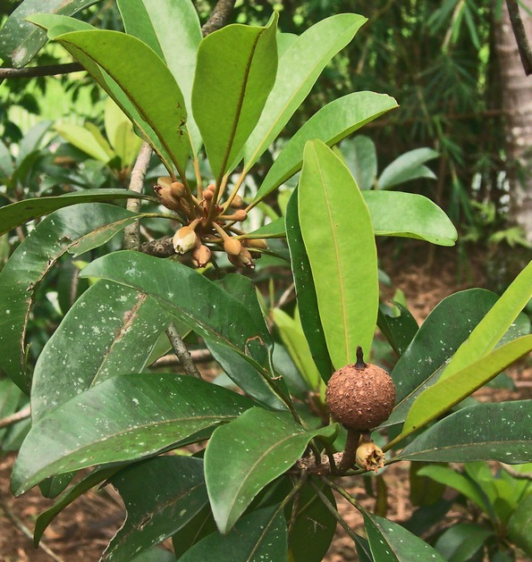 Manilkara zapota, young fruit and inflorescence. From Banyumas, Central Java, Indonesia.